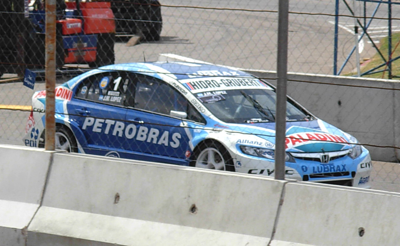 José María López' #1 TC2000 Honda Civic at the 2010 Punta del Este Grand Prix.